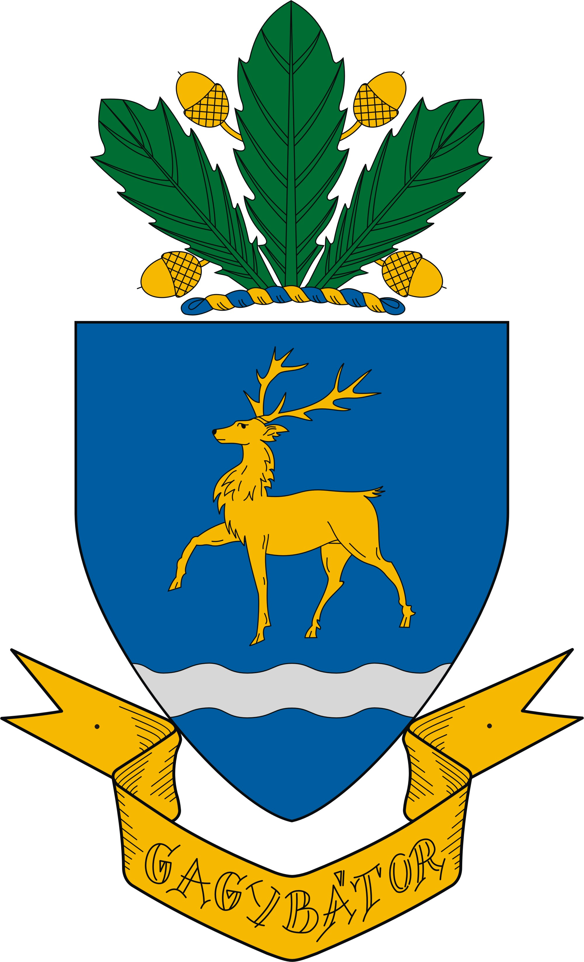 Coat of arms of Gagybátor, Hungary